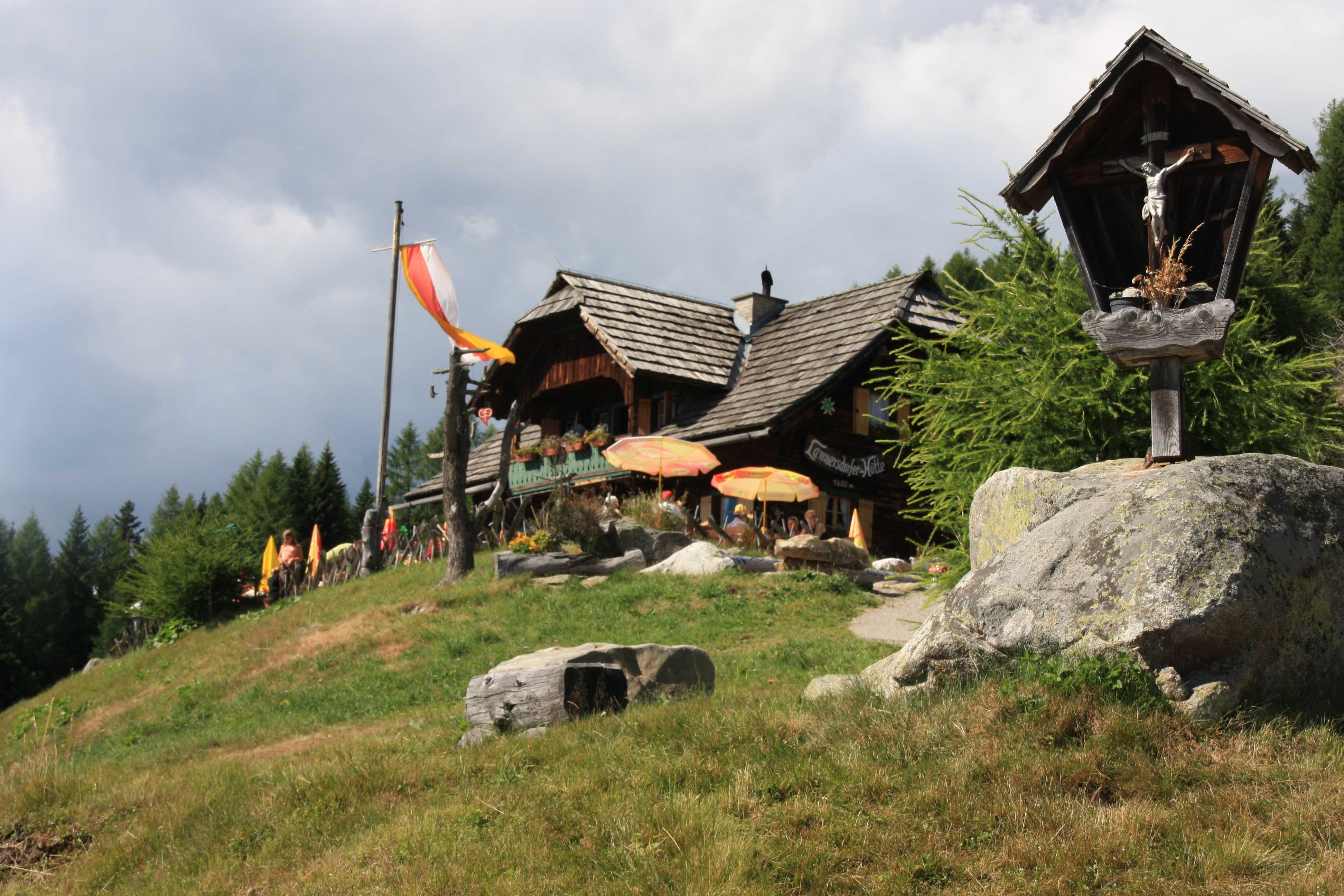 The Lammersdorfer hut above Millstatt in Carinthia.